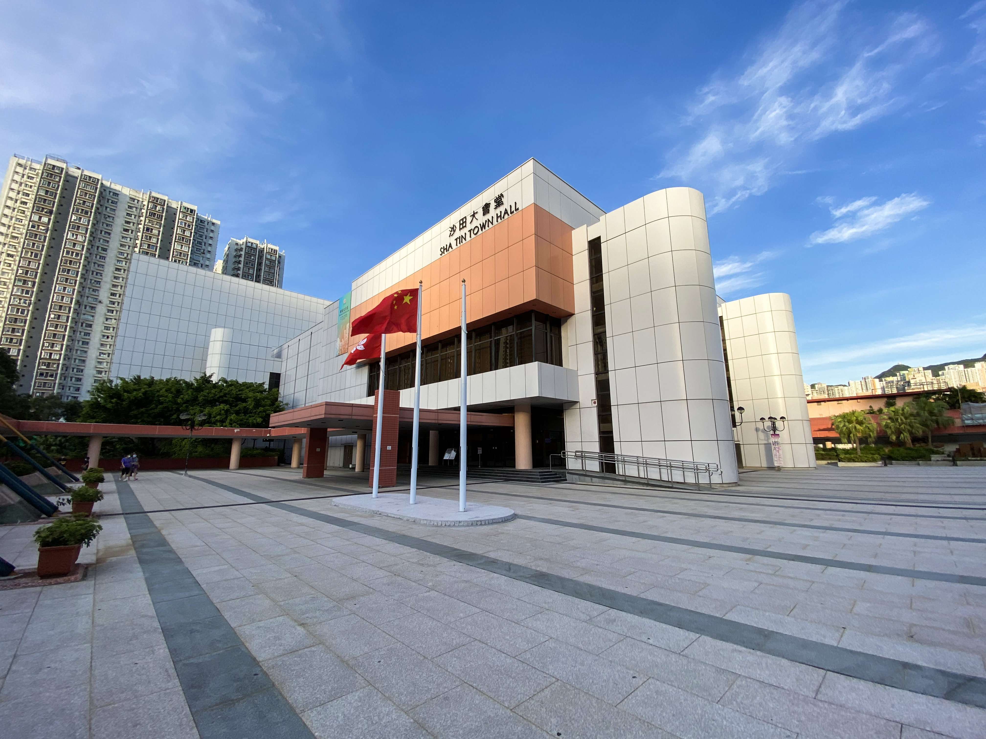 Sha Tin Town Hall Overview